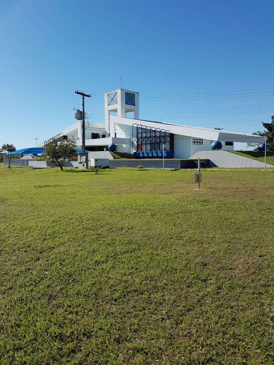 Museum in the Parque Estadual Telma Ortegal, in Goiânia, build after the Goiânia accident. The final storage for the radioactive waste is in the background of the property. In foreground a probe for gamma dose rate measurements.